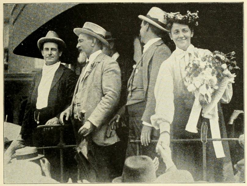 Image of William Jennings Bryan (left) and party on his campaign train car The Idler at Crestline, Ohio